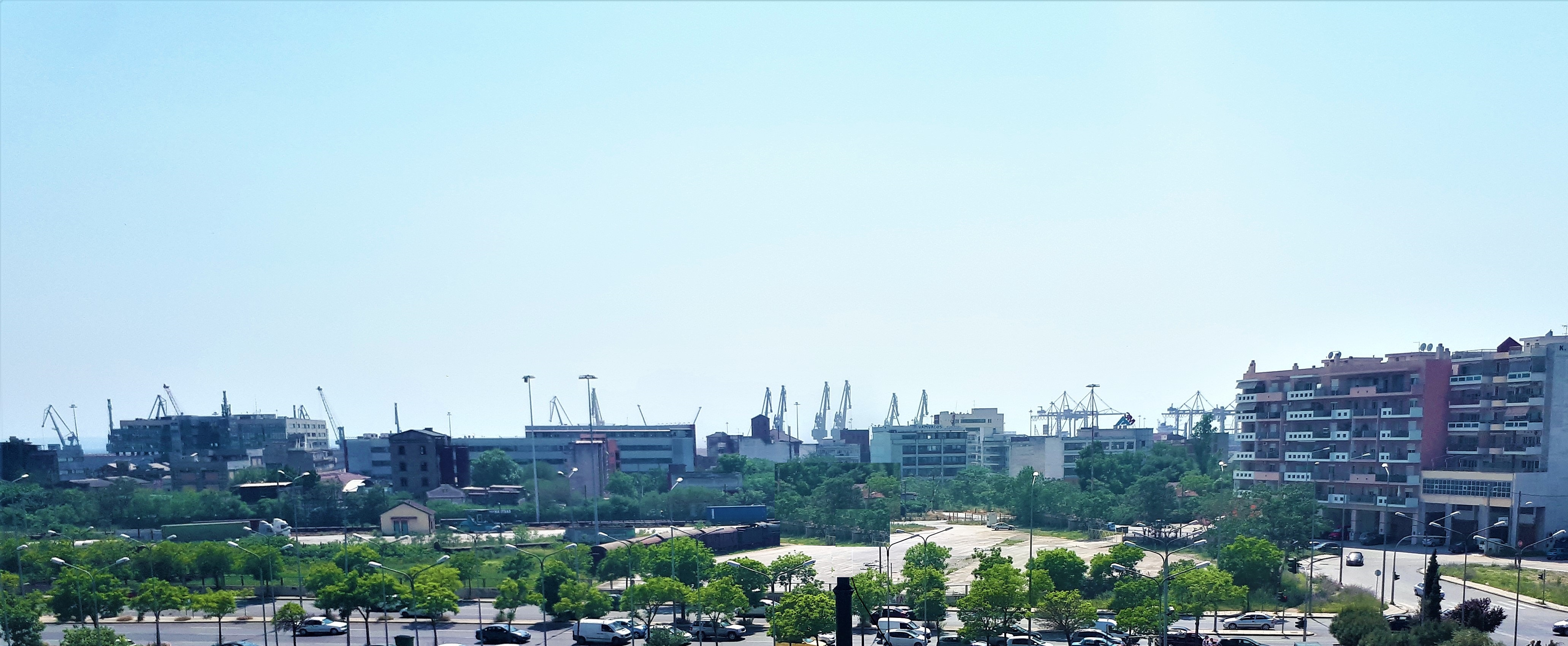 View from One Salonica Mall